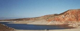 Lake Mead behind Hoover Dam in Sugarloaf Mountains, Arizona